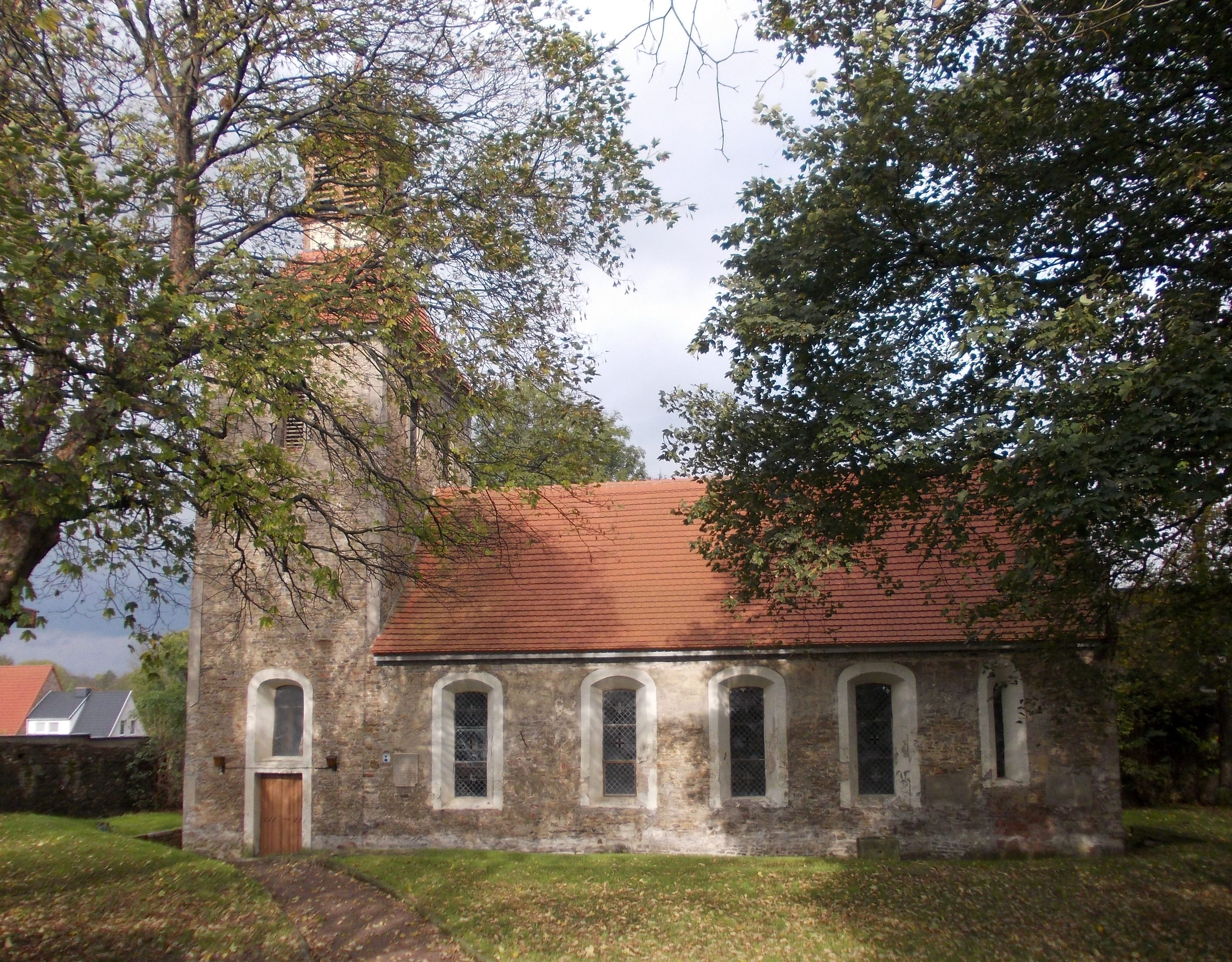 Trinum church (Osternienburger Land, Anhalt-Bitterfeld district, Saxony-Anhalt)